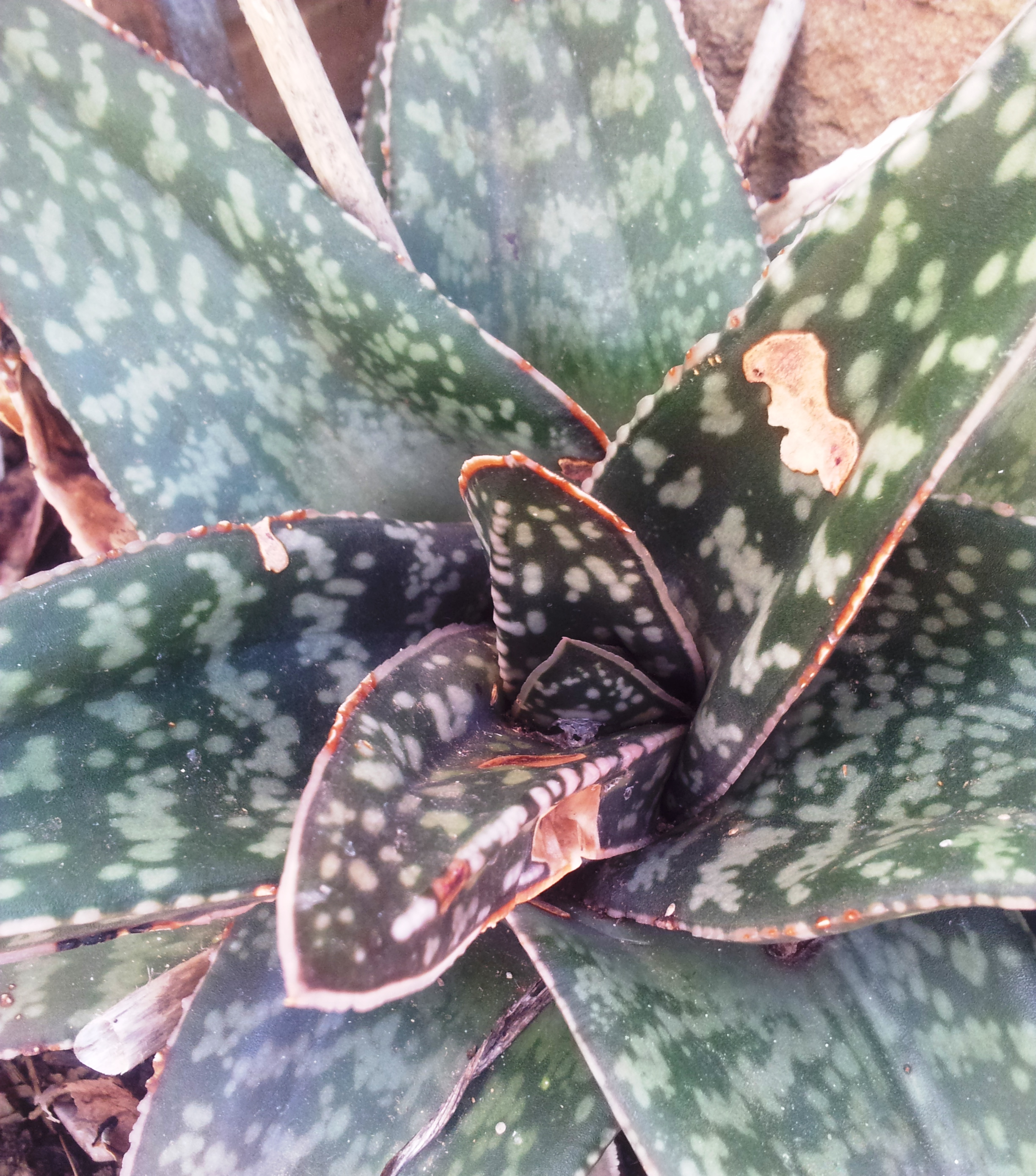 Leaf detail of Gasteria excelsa varieties